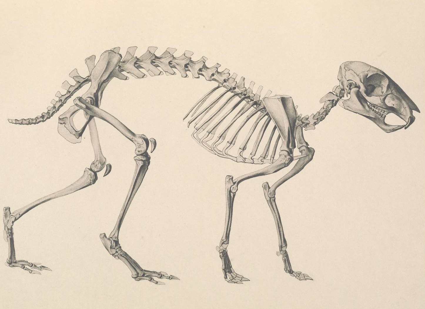 Drawing of skeleton of Eocardia.